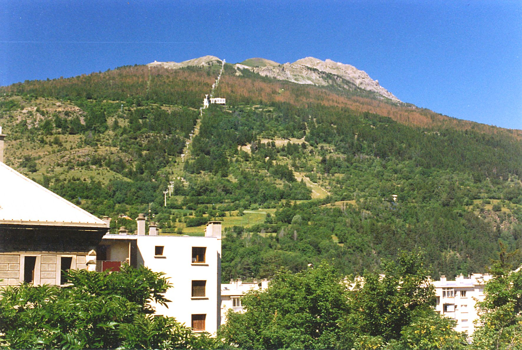 Briancon, France and in the background the 'Prorel Cable Car'. July 1996.